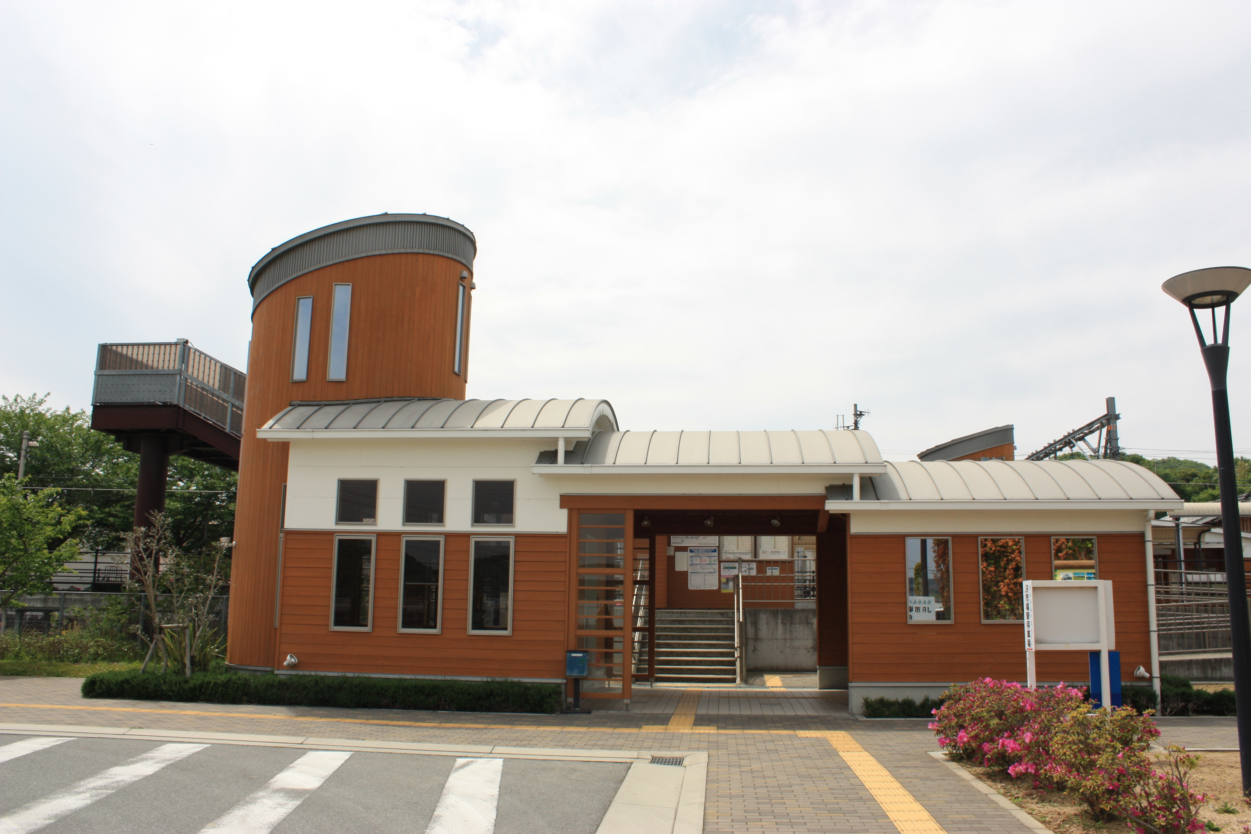 JR West Kakogawa Line Ichiba Station East gate